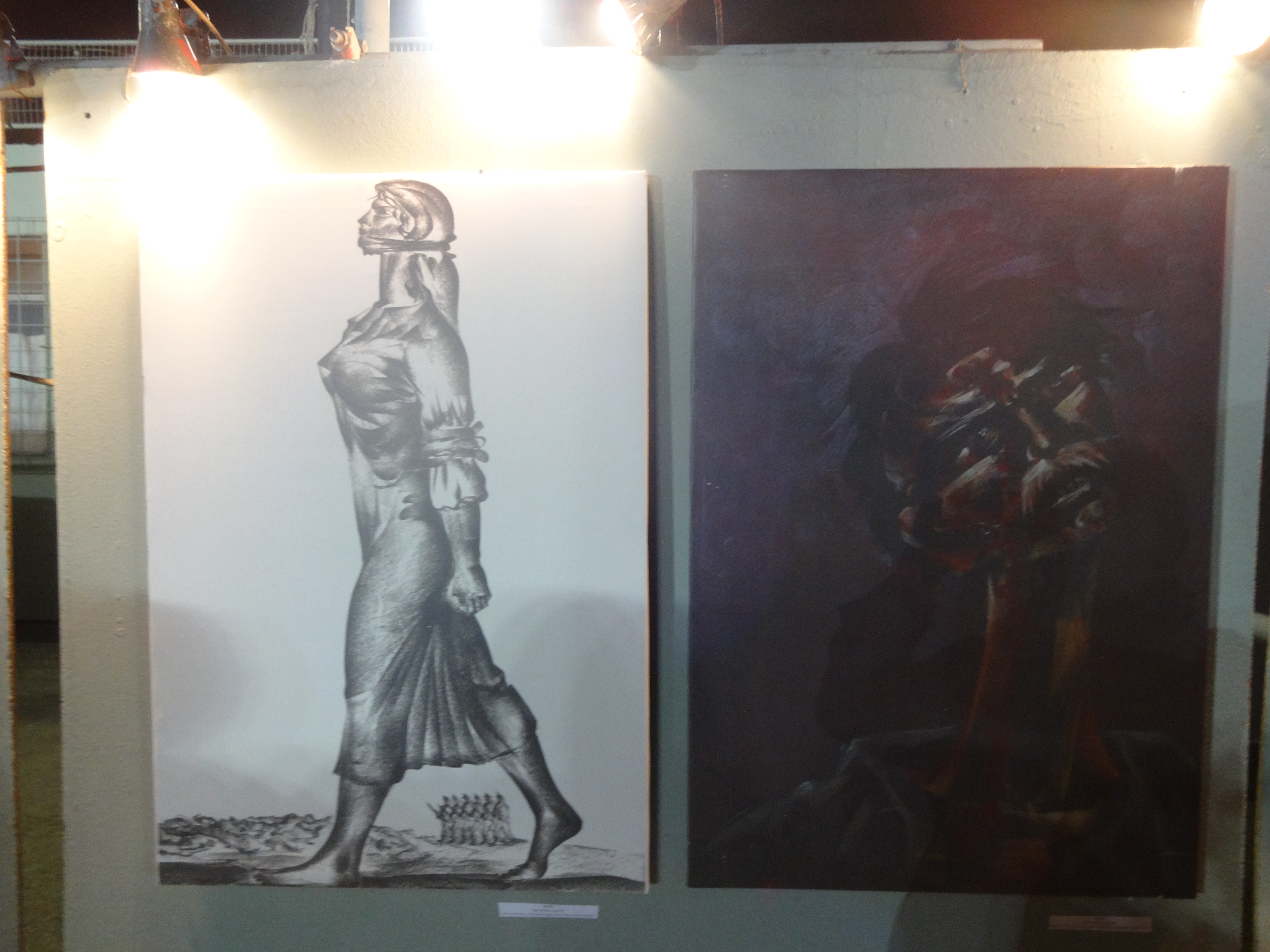 Stand at the Festival of Communist Youth of Greece, September 2016